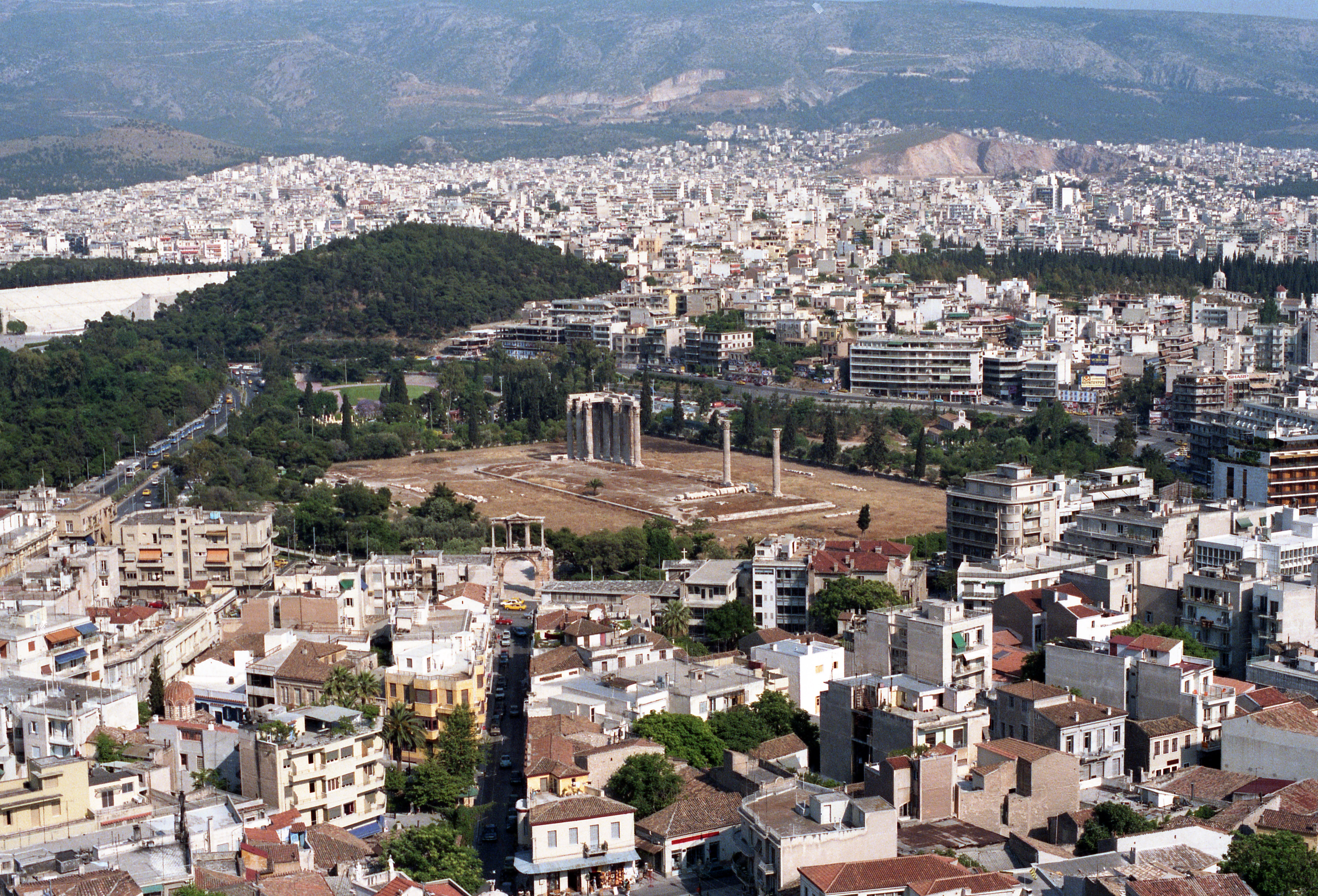 A photo of the Temple of Olympian Zeus, in Athens, Greece from a high vantage point, showing the ruins amidst the city. Taken by a family member on a trip in the '80s.